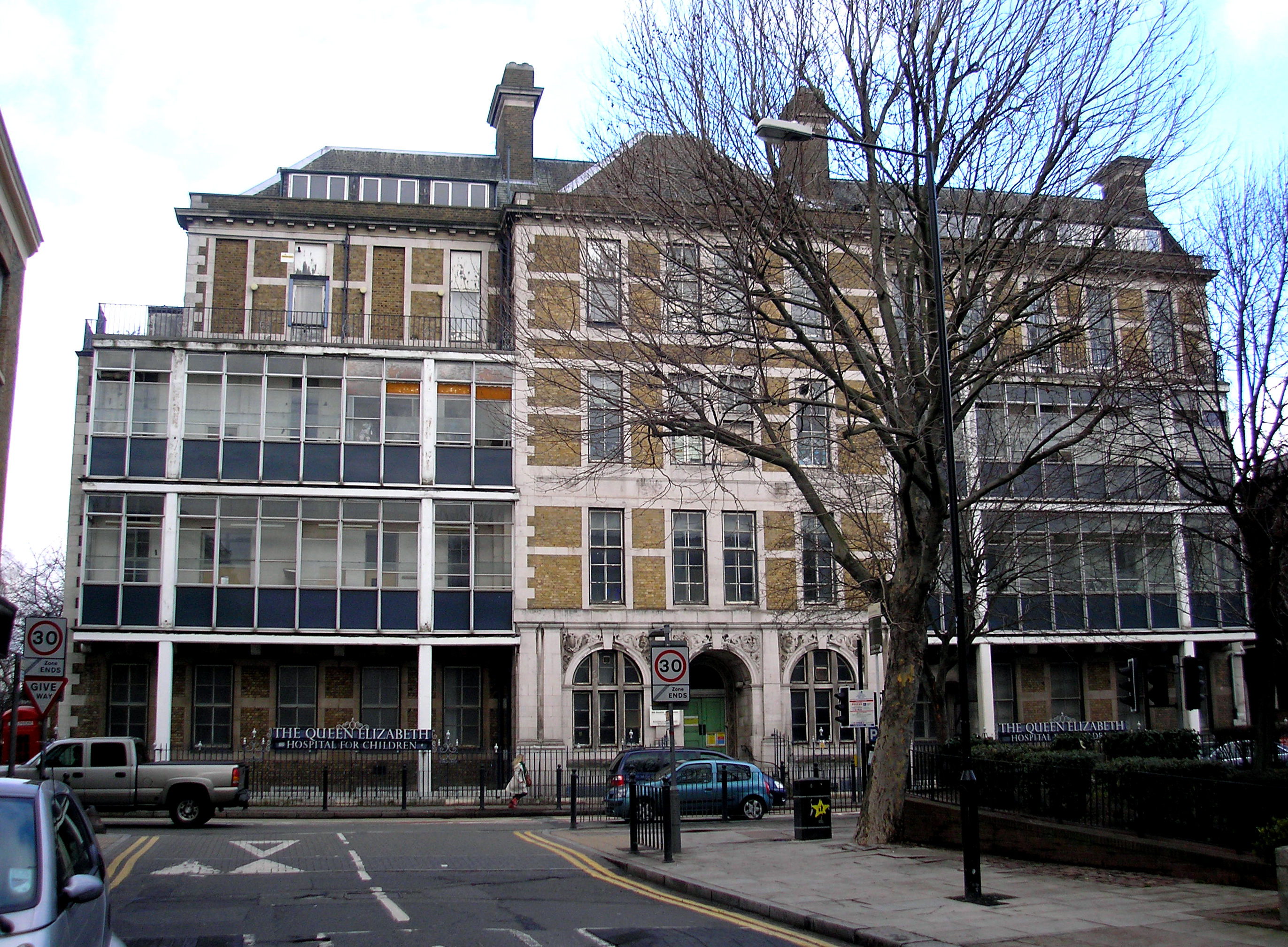 Bethnal Green: Queen Elizabeth Hospital for Children In 1868, the North Eastern Hospital for Children opened on this site. In 1908 it was renamed the Queen's Hospital for Children, and in 1942 after amalgamation with another similar institution from Shadwell, the present name was adopted. However, in 1998 the services of this hospital were transferred to the Royal London Hospital in Whitechapel.